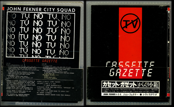 "Cassette Gazette" an audio cassette book by John Fekner includes 62 pages of photoographs and text along with 9 songs on an audio cassette published by B-Sellers in Japan in 1985. Front and back covers displayed. Donated to Wikipedia and Wikimedia Commons by John Fekner